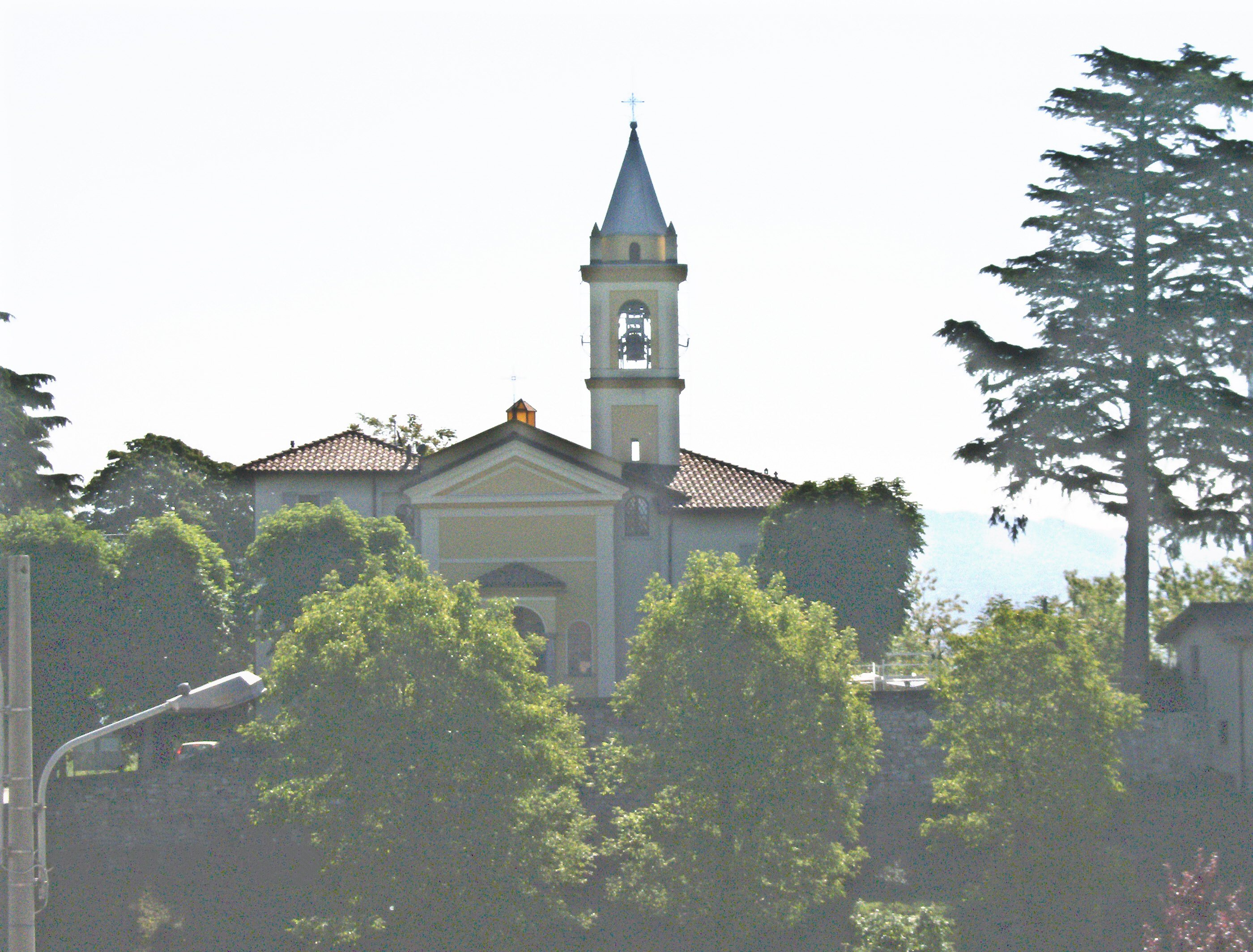 Sanctuary of Our Lady of Lourdes